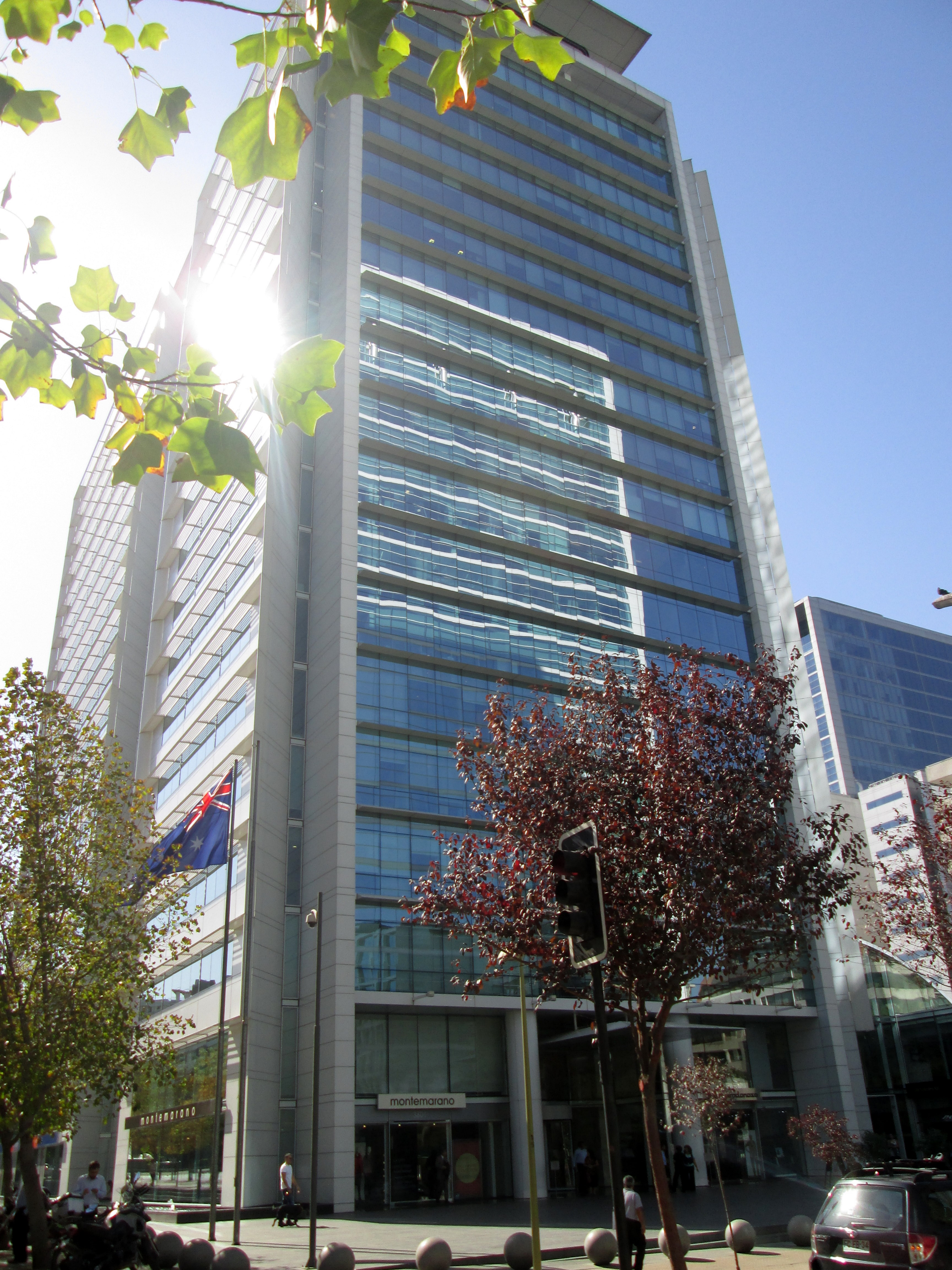 Australian Embassy in Santiago de Chile